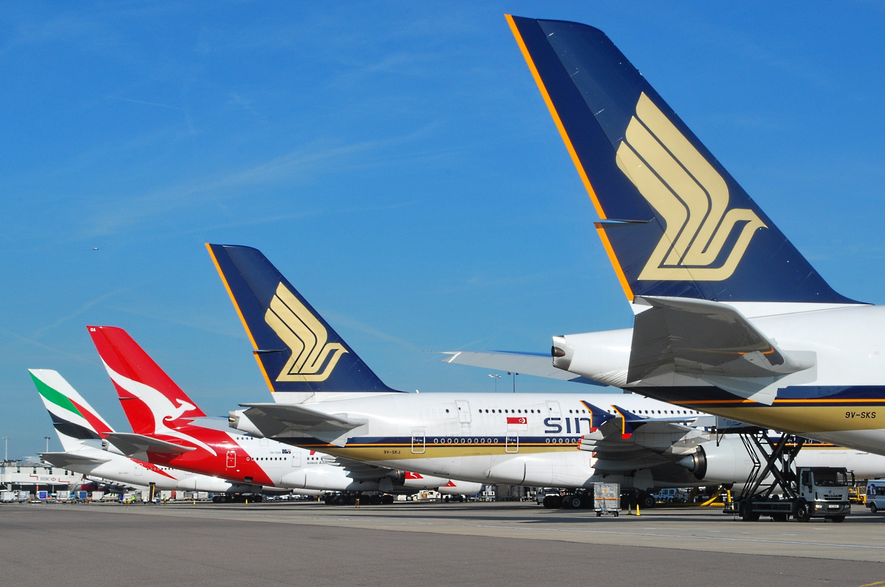 Line up of Airbus A380s on Heathrow's Pier 6